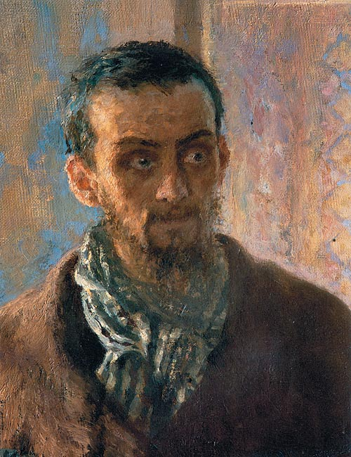 They Did Not Expect Him (detail of the painting by Ilya Repin, 1884-1888)